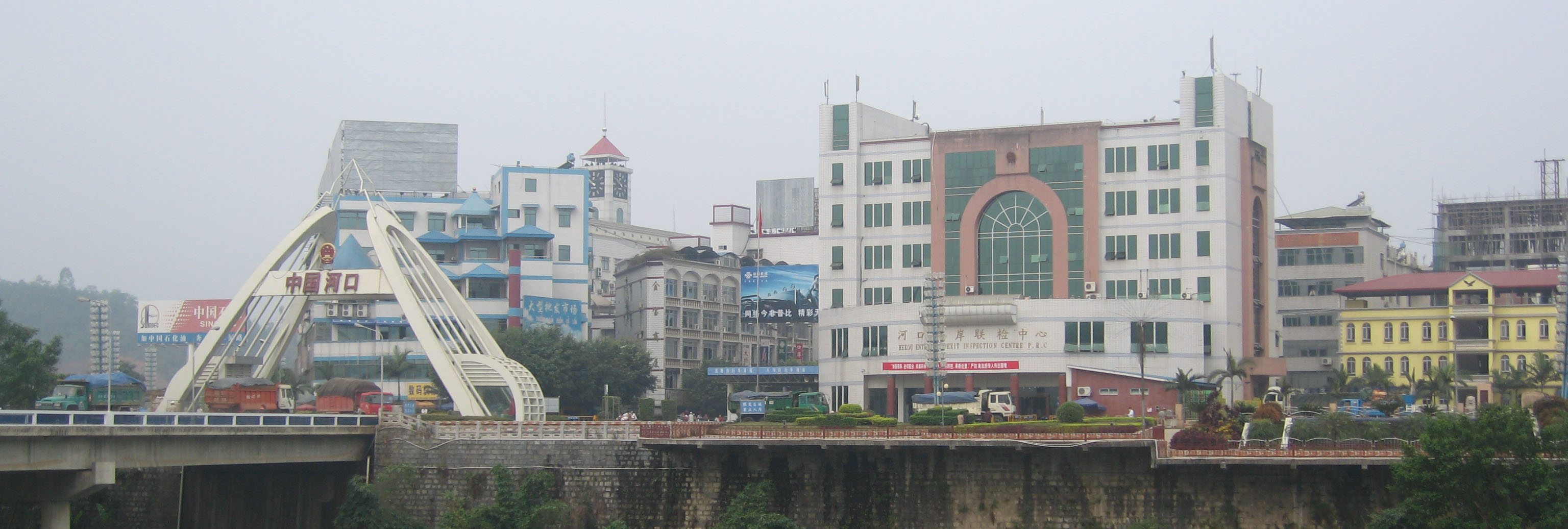 Hekou Port of Entry (the old one, in downtown Hekou), seen from the Vietnamese side of the Nanxi River